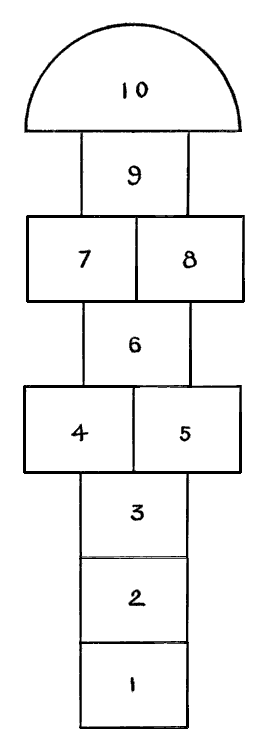 Modern schoolyard hopscotch court.